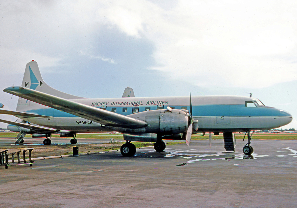 Convair 440 N446JM of Mackey International Airlines at Fort Lauderdale International in 1975